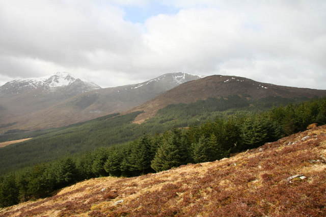 Meall Odhar Forestry on the slopes of Meall Odhar.